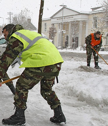 Snow clearing outside Naas Courthouse